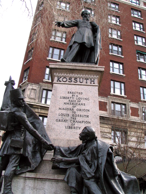 A statue Lajos Kossuth stands on 113th & Riverside Drive in Manhattan, New York. See also File:Kossuth 104th RSD jeh.JPG